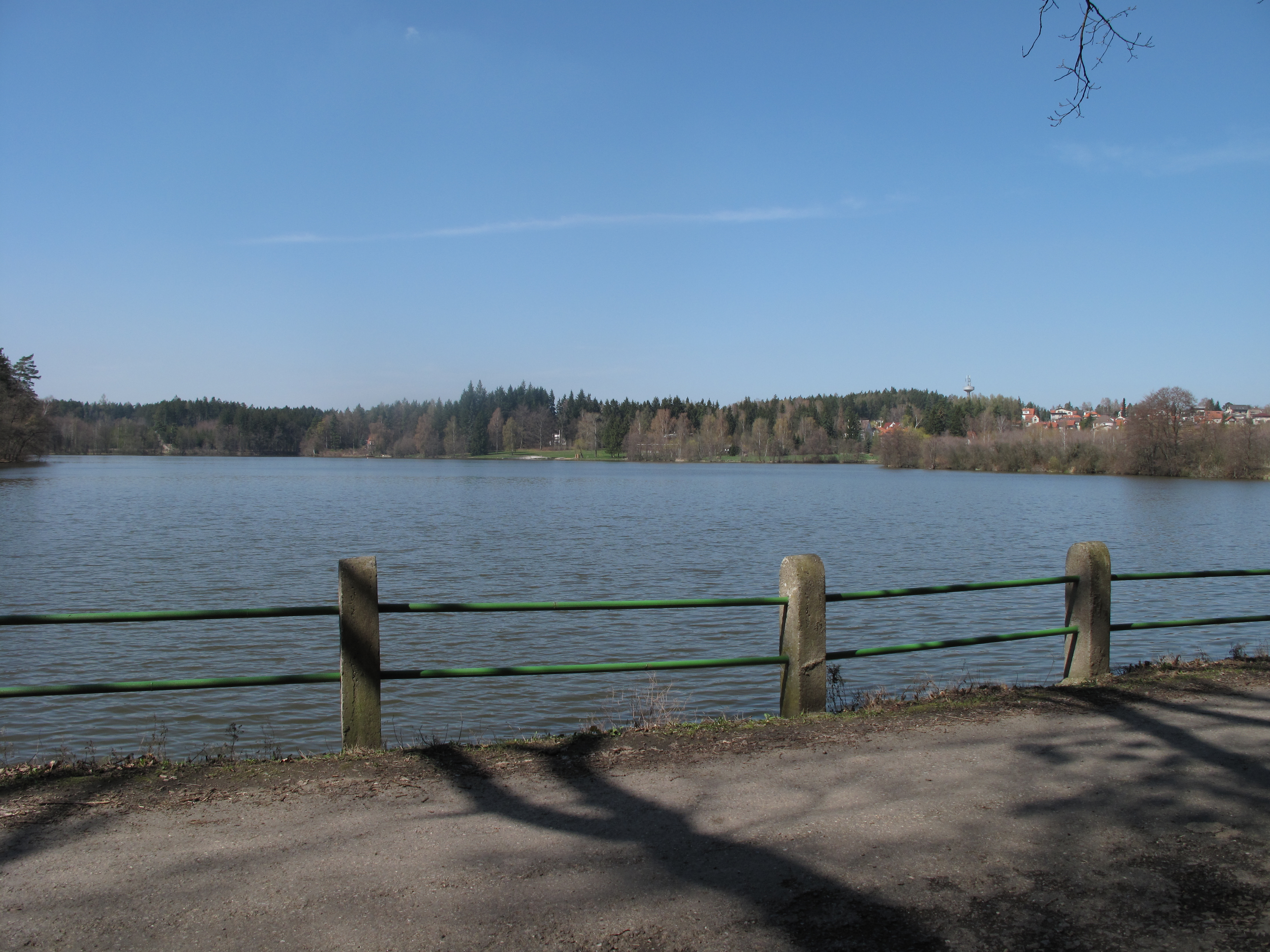 Vyžlovský Pond from the dam, Prague-East District, Czech Republic. This photograph was taken within the scope of the 'Czech Municipalities Photographs' grant.